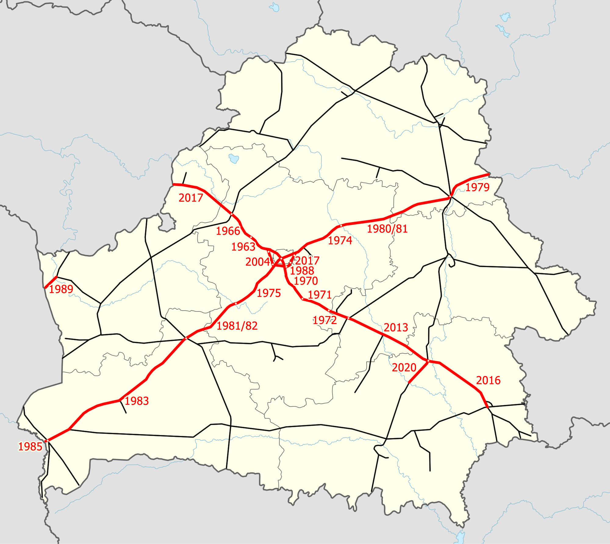 Chronology of electrification of the Belarusian Railway.